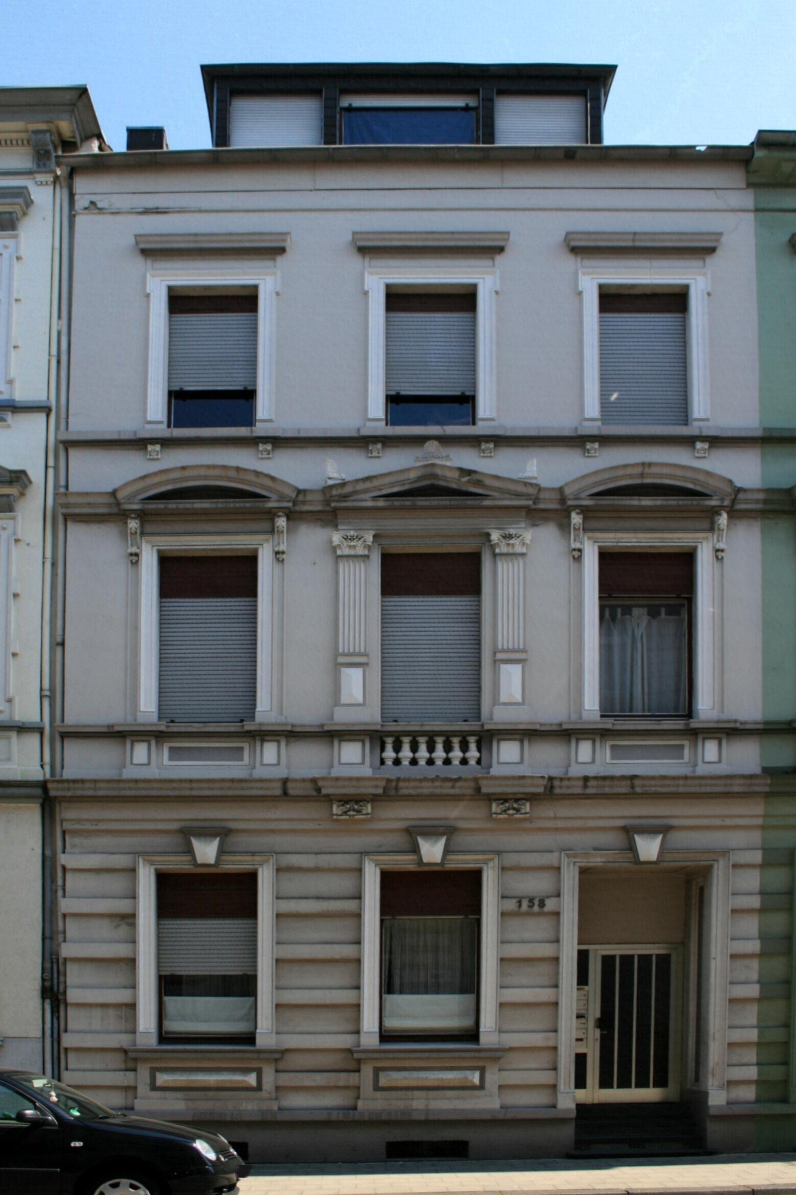 Cultural heritage monument No. R 066 in Mönchengladbach